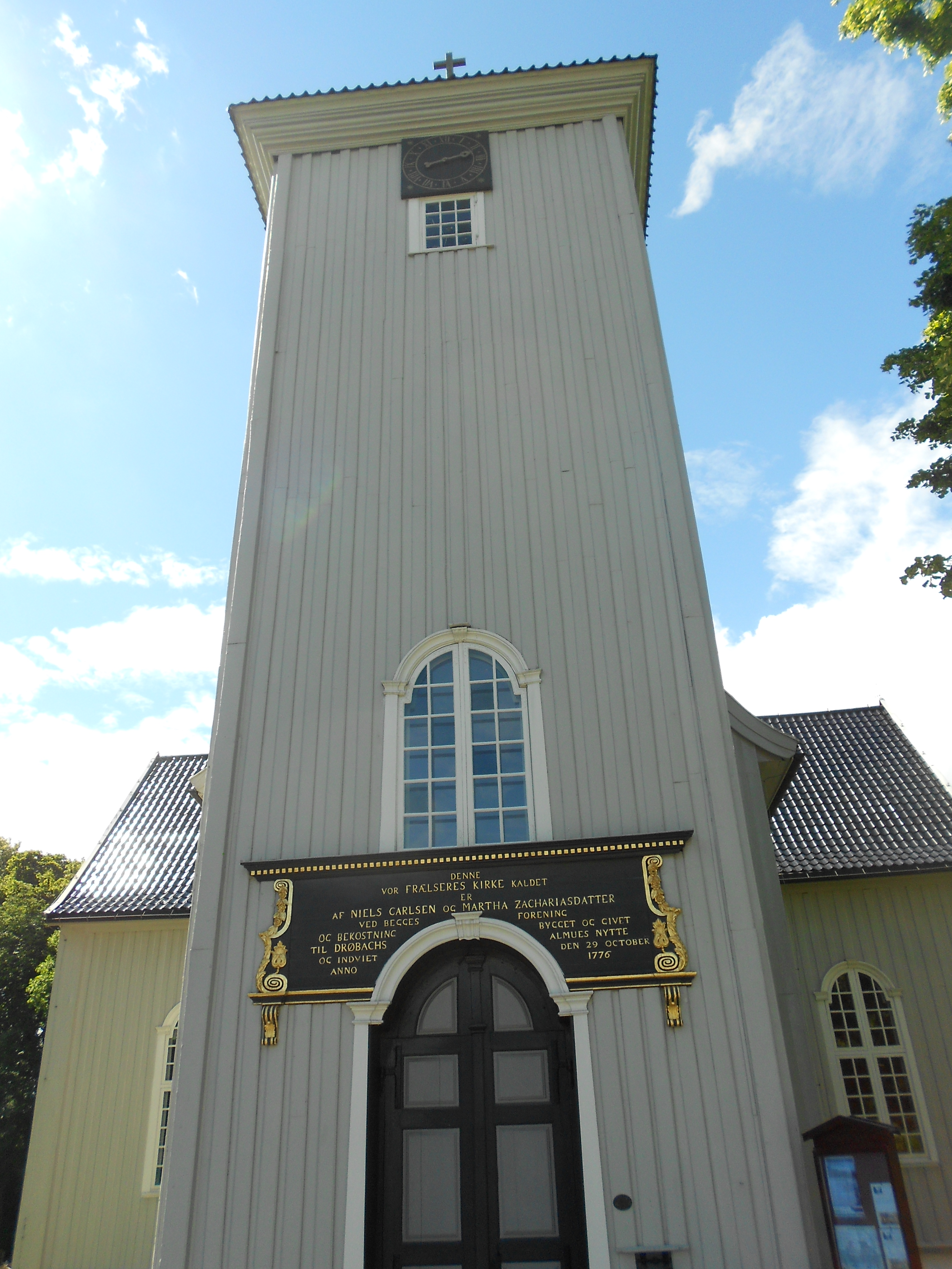 Drøbak church, Frogn, Norway.